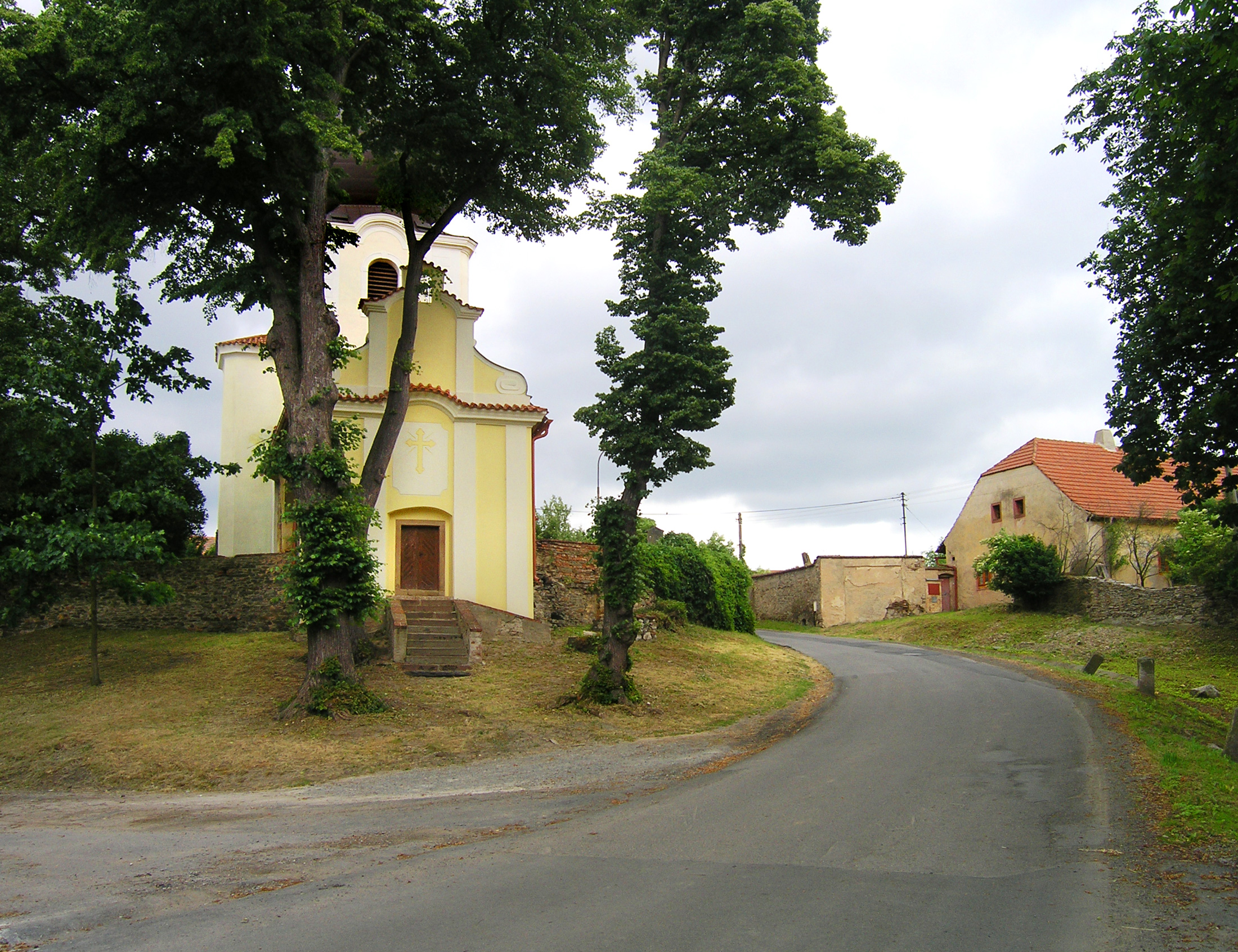 Svatý Bartoloměj church in Popovičky, Czech Republic